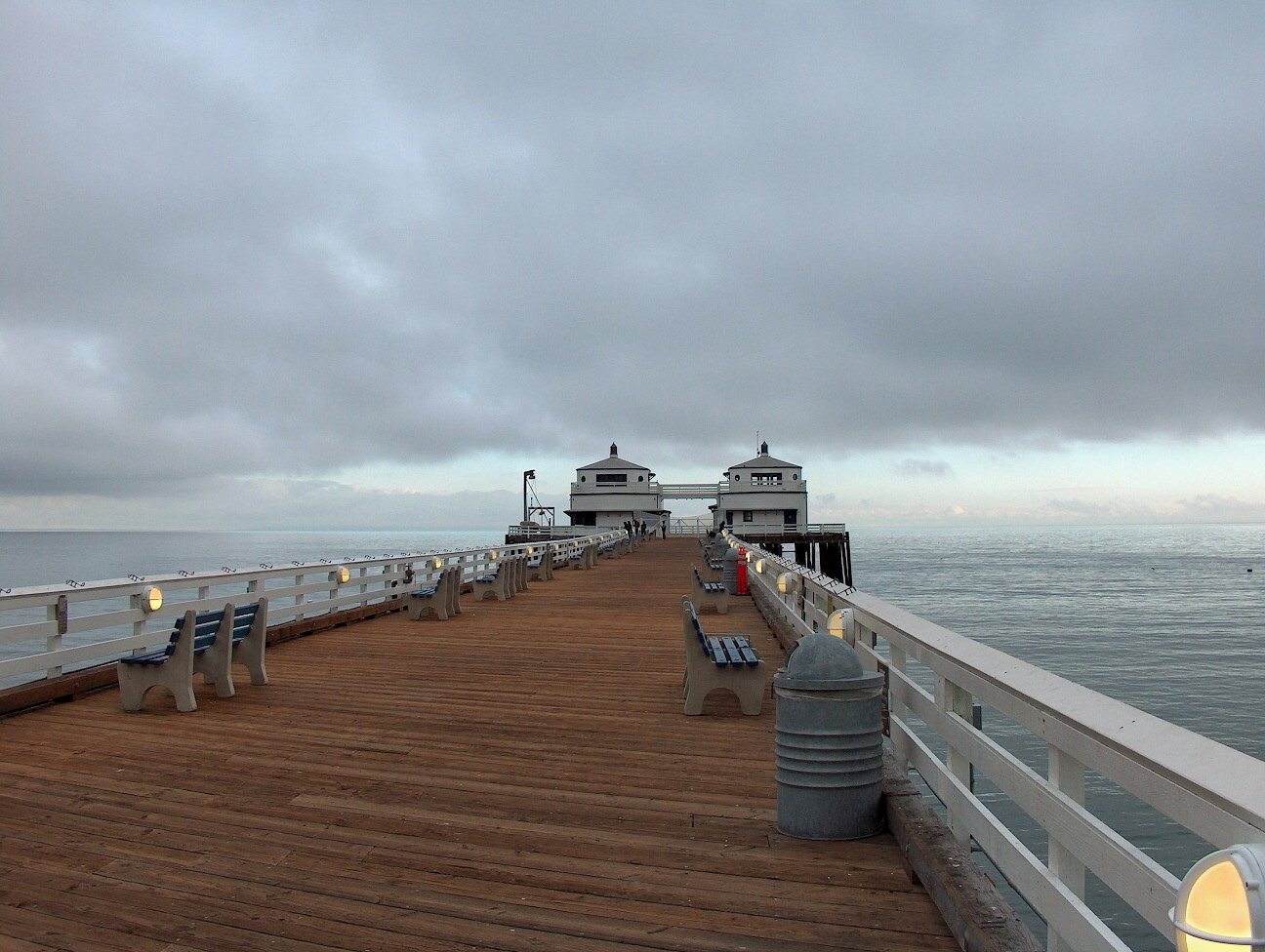 Malibu pier near Surfrider beach, photographer Eino Mustonen